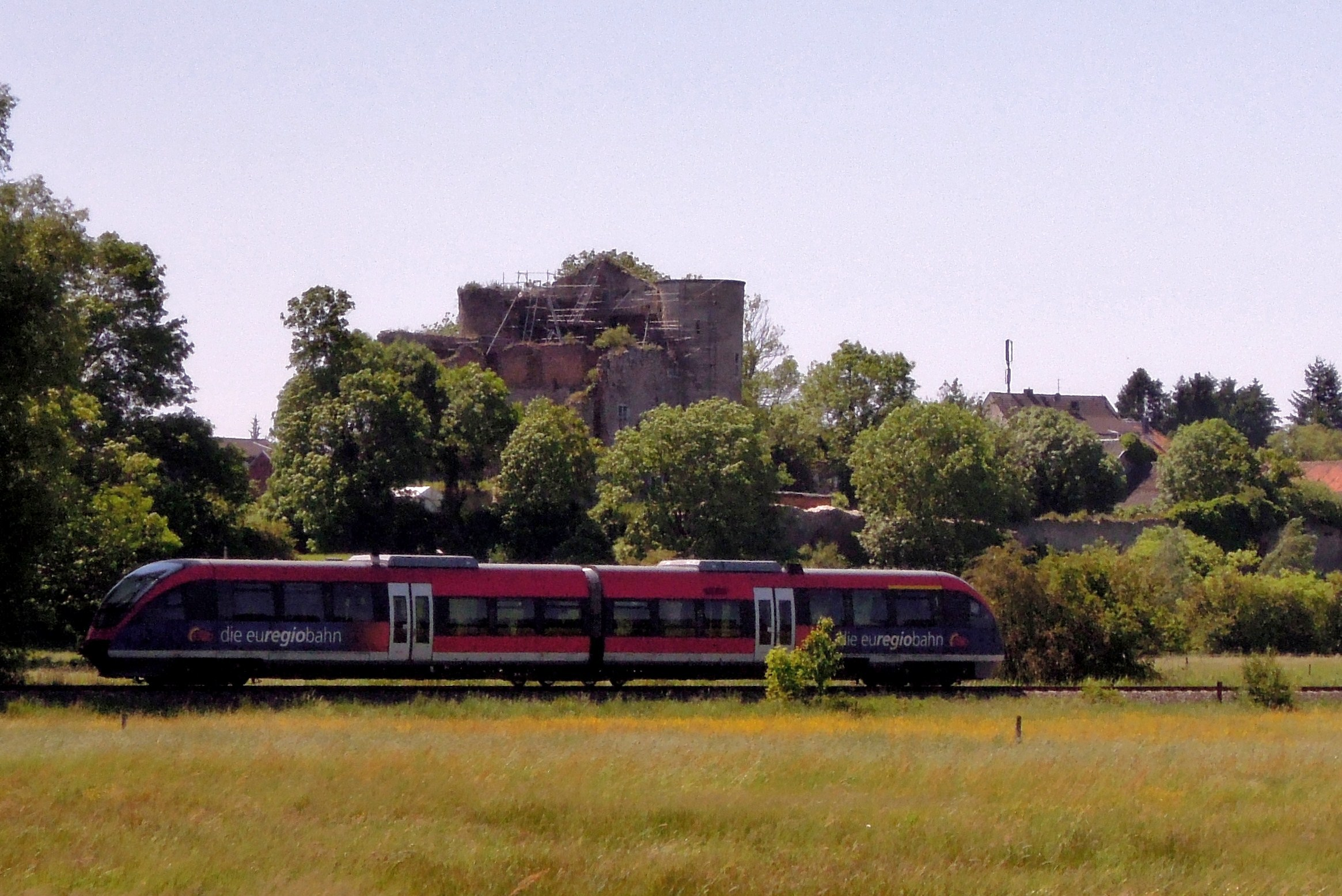 A Bombardier Talent VT643.2 from the "Euregiobahn" just left Weisweiler and now is passing by the Nothberger Burg in Nothberg